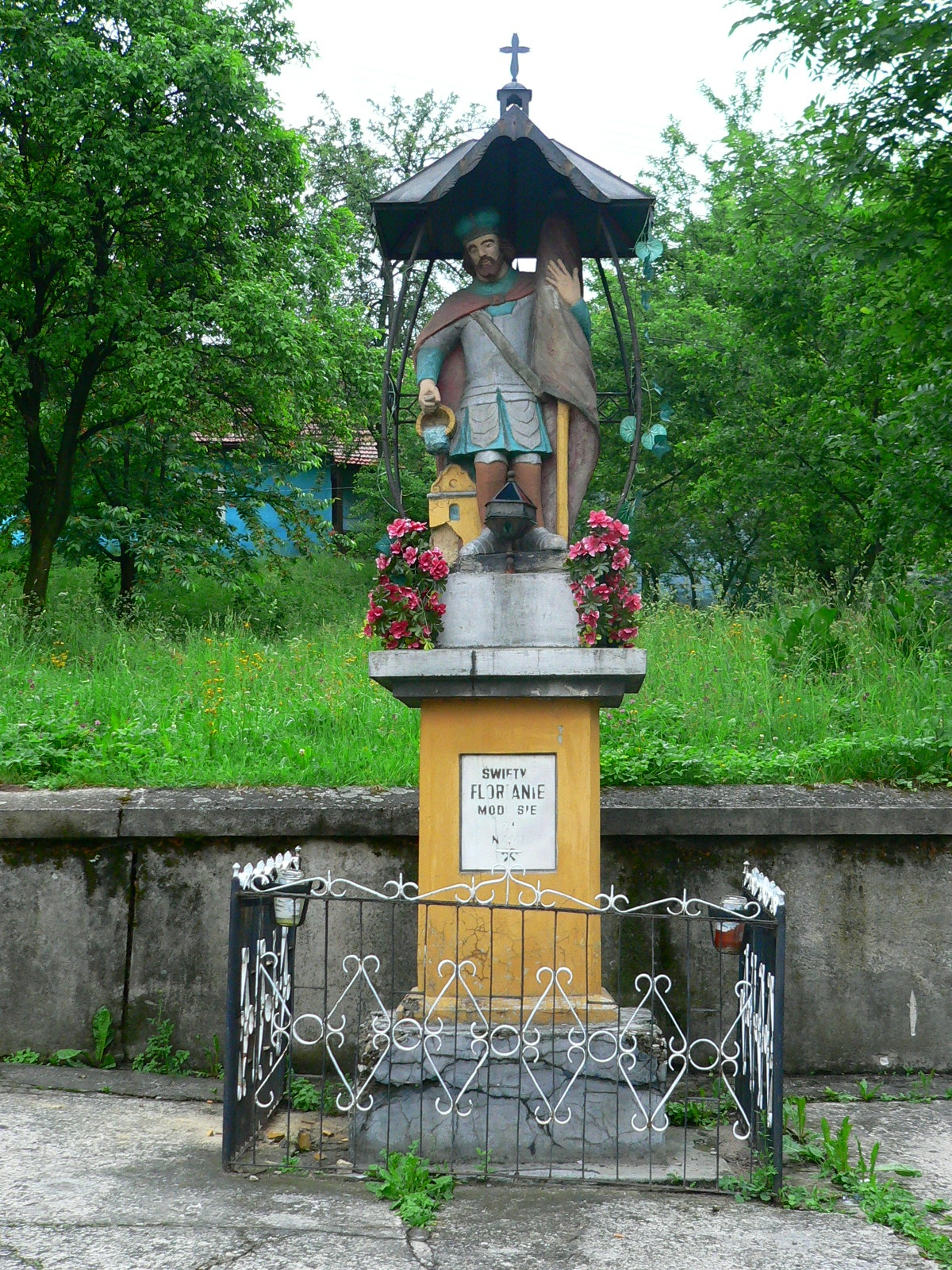 St. Florian's statue in Podstolice (Poland)